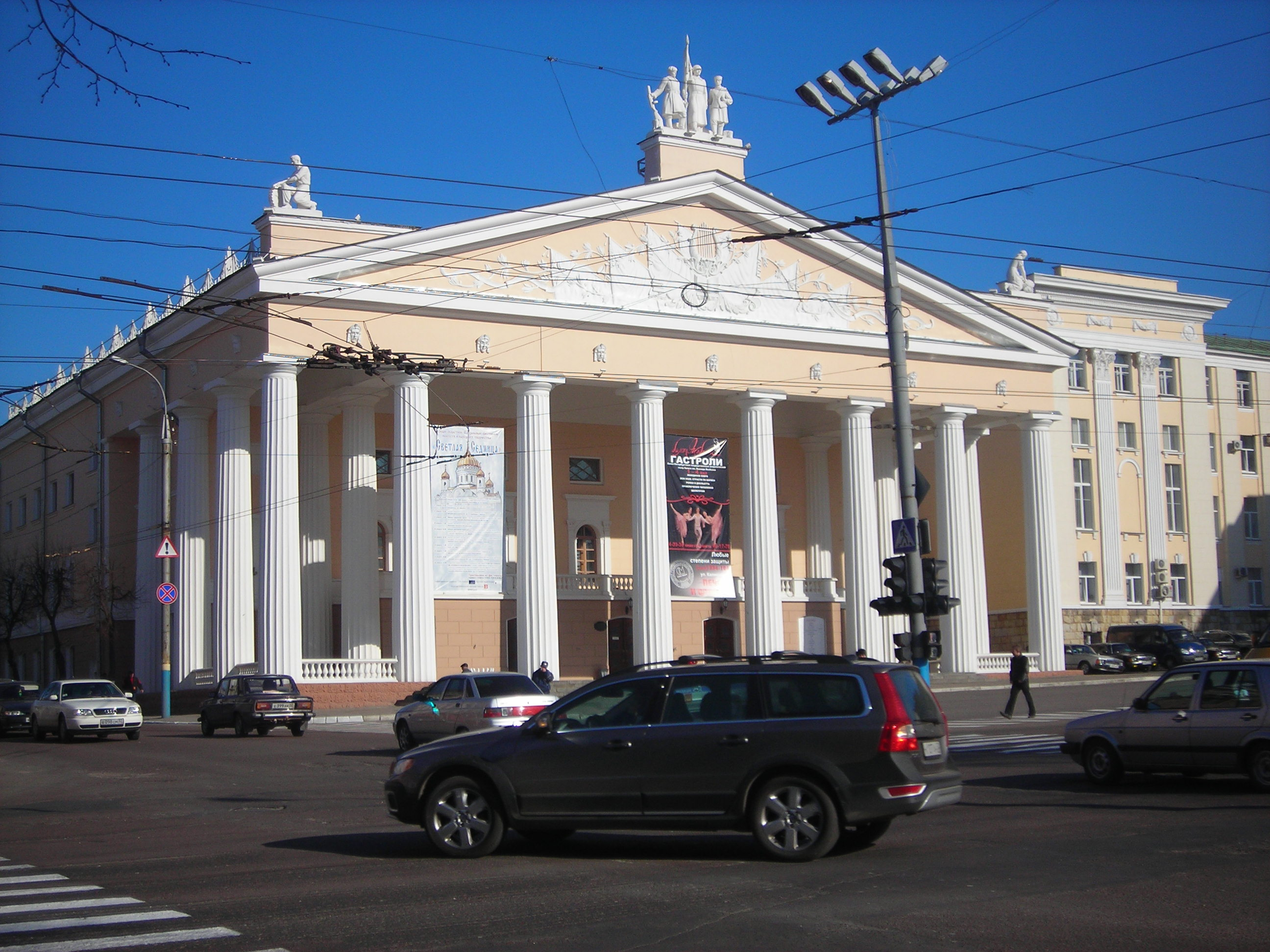 Bryansk Drama Theater